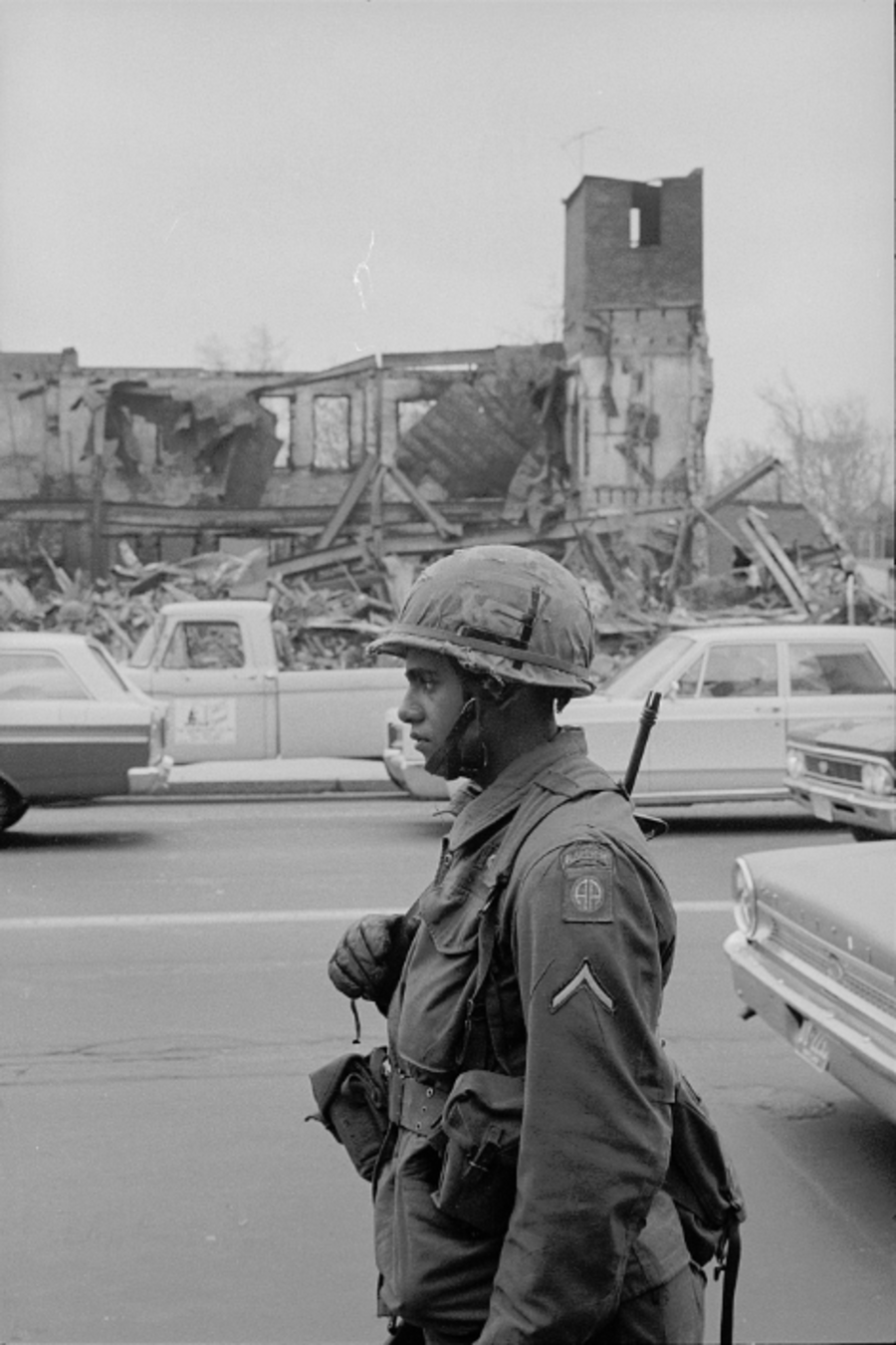 D.C. Riot scenes in area of 14th-7th Sts. N.W., [Washington, D.C.]